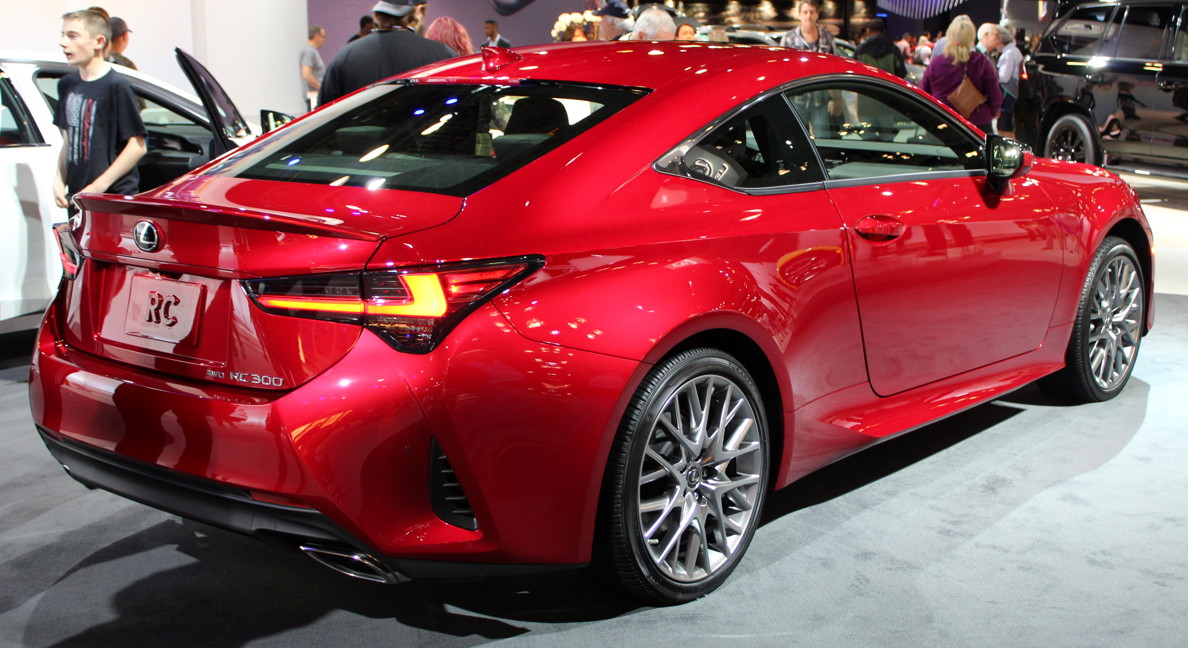 A 2019 Lexus RC300 AWD photographed during the 2019 New York International Auto Show, in Hudson Yards, Manhattan, NYC